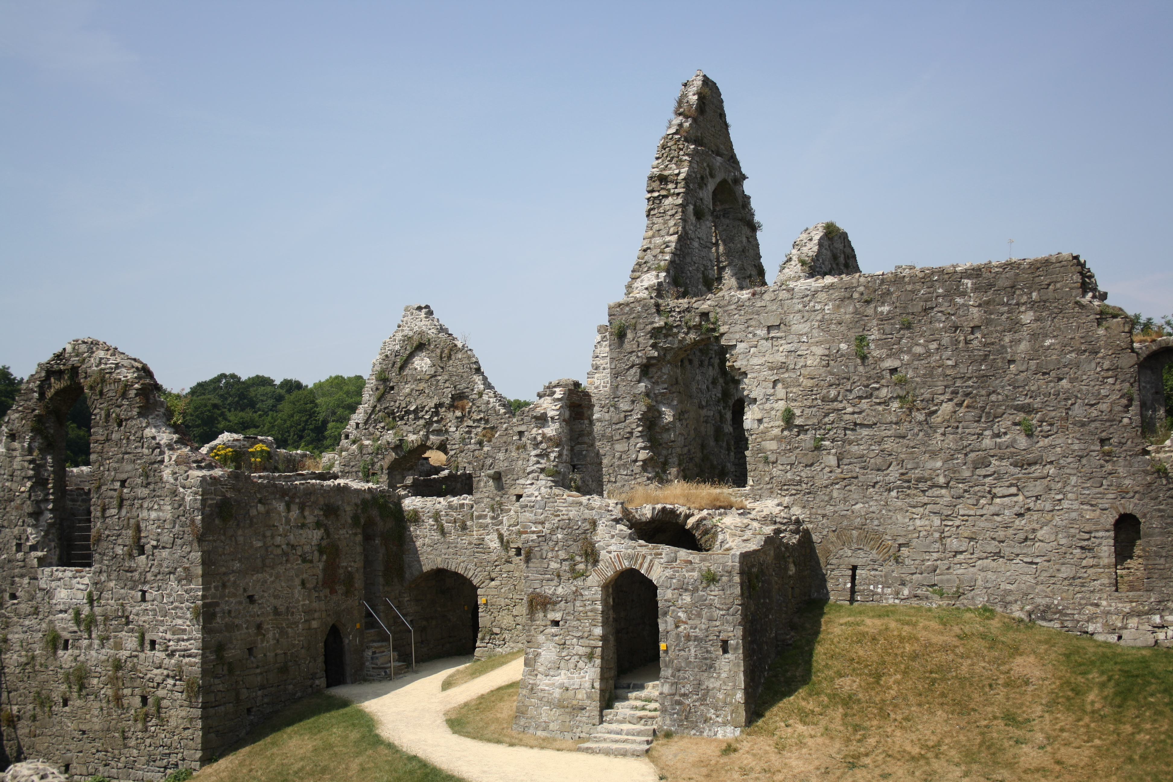 Oystermouth Castle, the former Keep